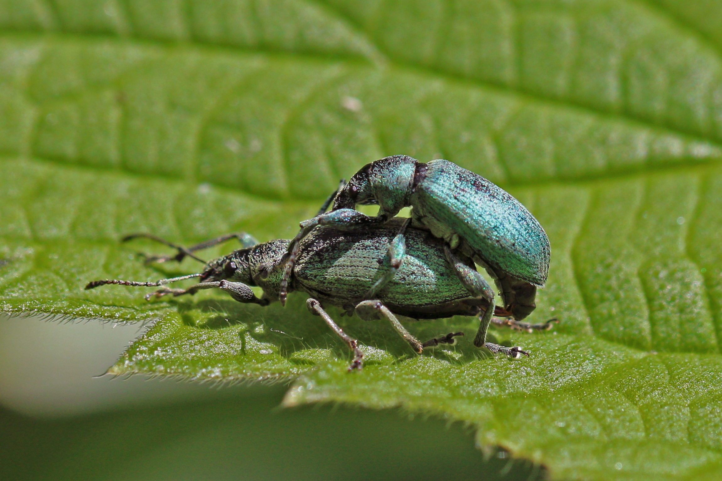 Leaf weevils (Polydrusus formosus) mating, Barton Fields, Oxfordshire